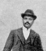 Pantelis Karasevdas at Patras (1897)